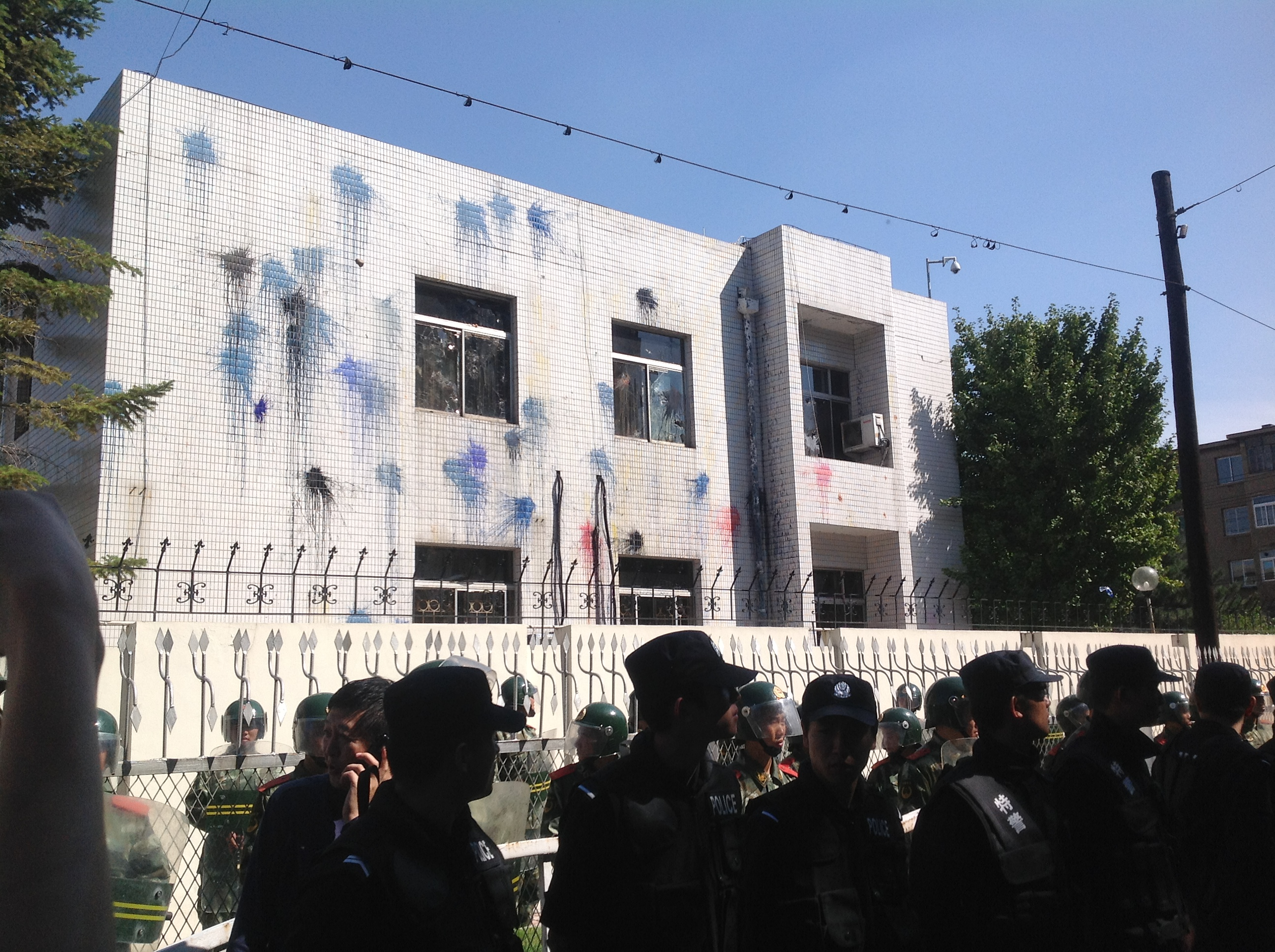 The Consulate-General of Japan in Shenyang being attacked during 918 Shenyang Anti-Japan Demonstration (2012).